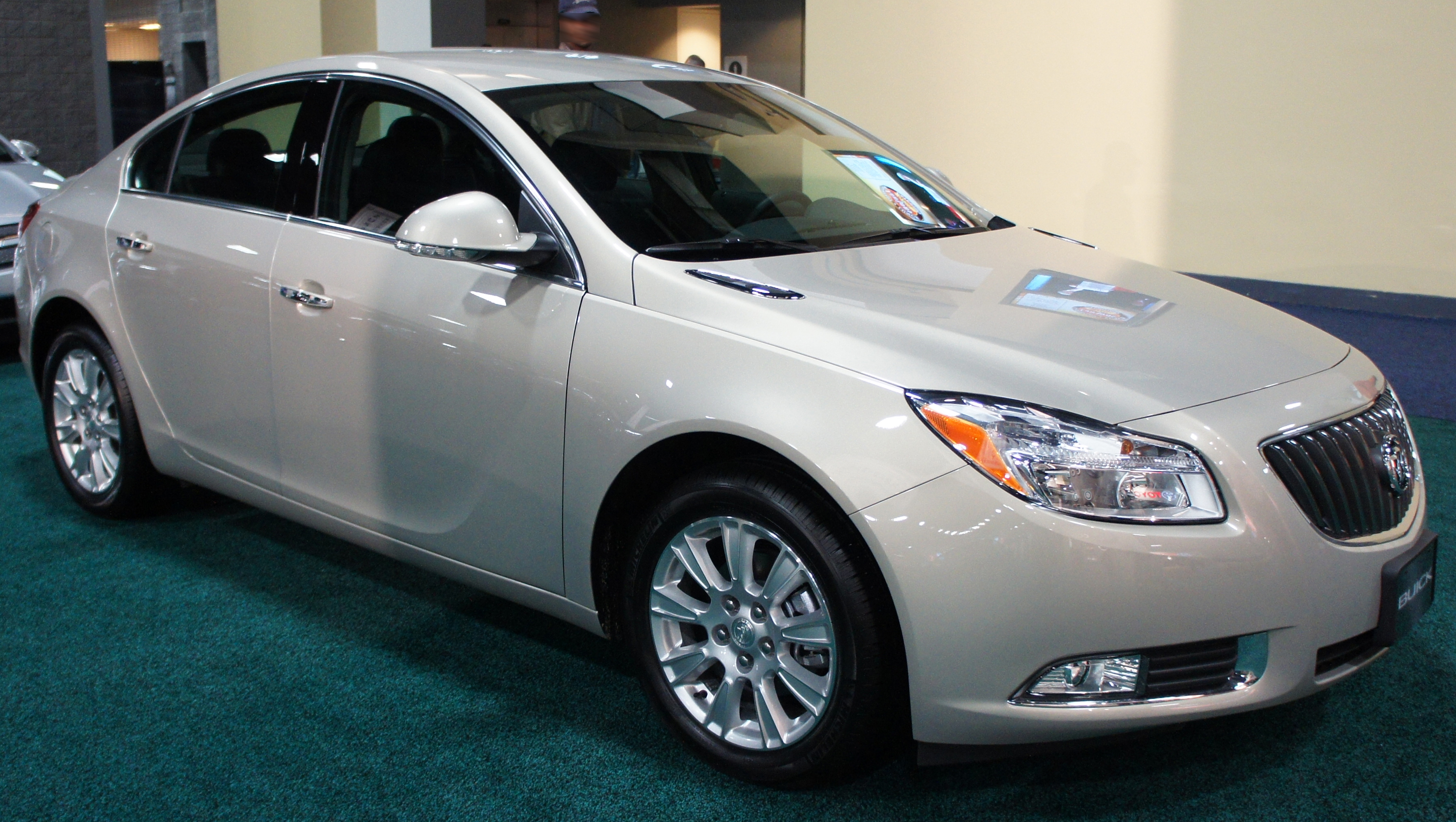 2012 Buick Regal eAssist mild hybrid exhibited at the 2012 Washington Auto Show (D.C.)